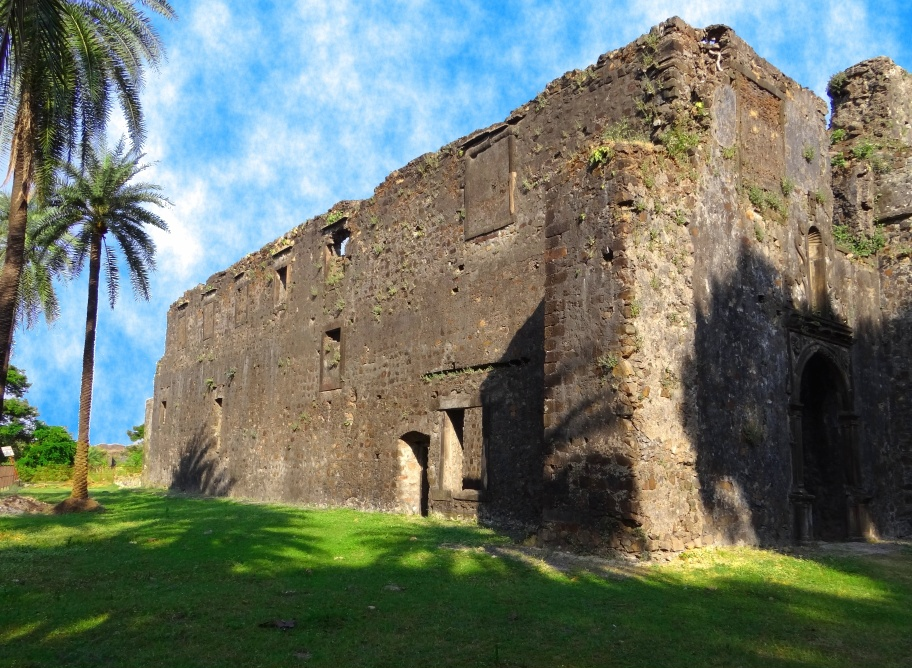 Vasai fort building